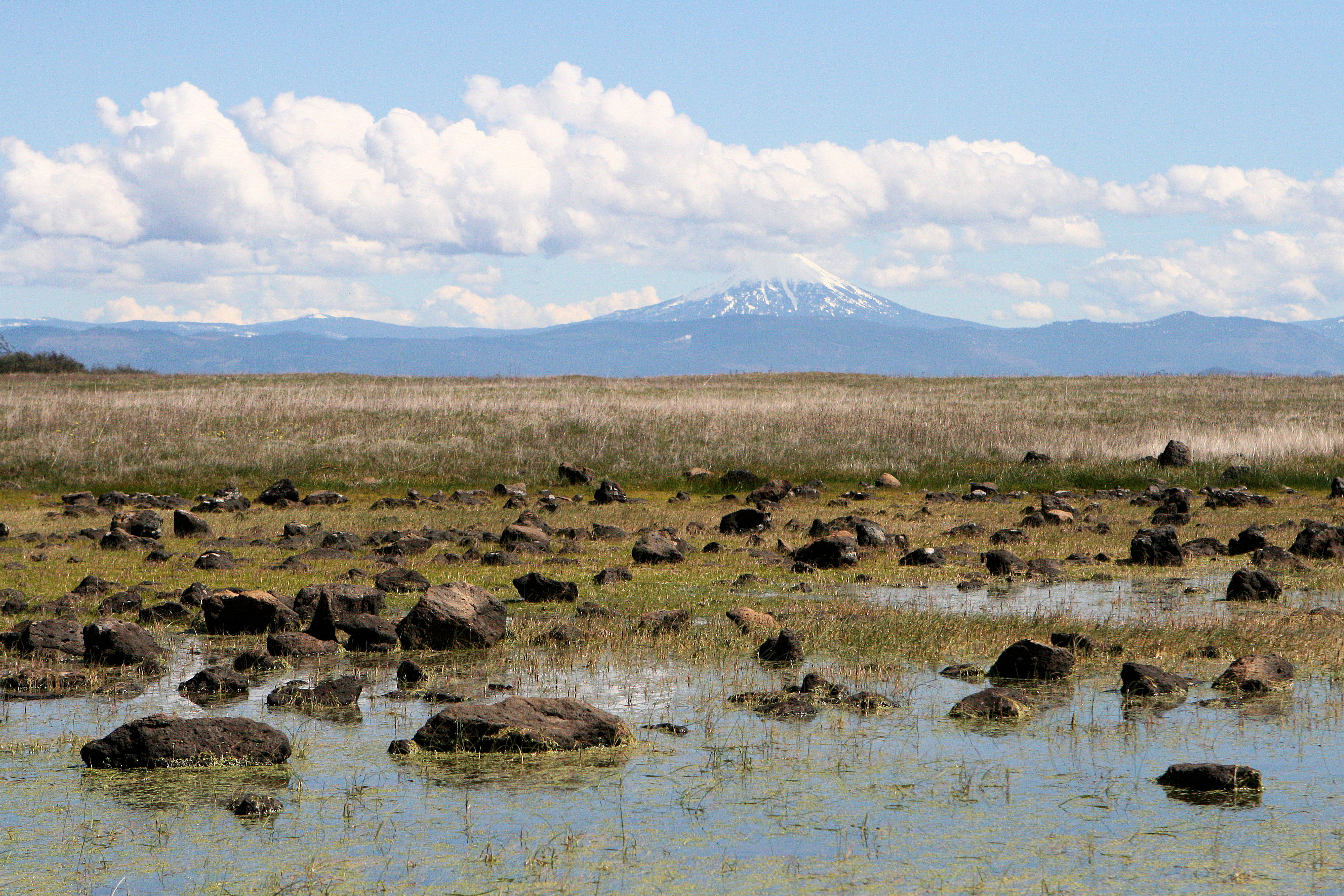 Vernal pool on plateau atop Lower Table Rock, Oregon. Mount McLoughlin can be seen in the background.